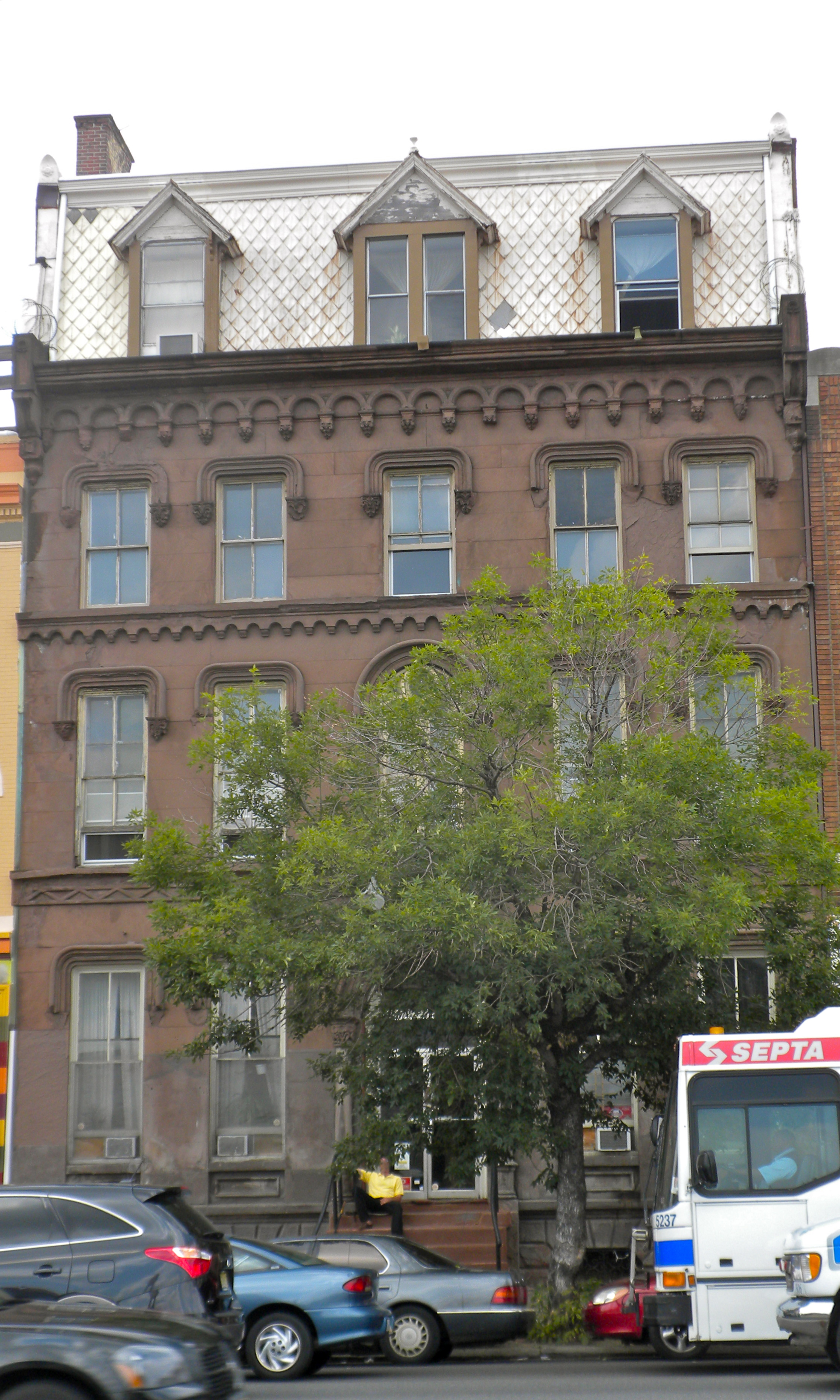 Matthew Baird Mansion on the NRHP since December 29, 1983. At 814 North Broad Street, Philadelphia in the Francisville neighborhood pf North Philly. Built 1863-64. Supposedly owned by the owner of Baldwin Locomotive plant.